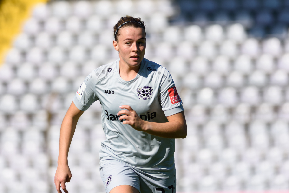 Sandra Jessen during the Bundesliga match vs FC Bayern